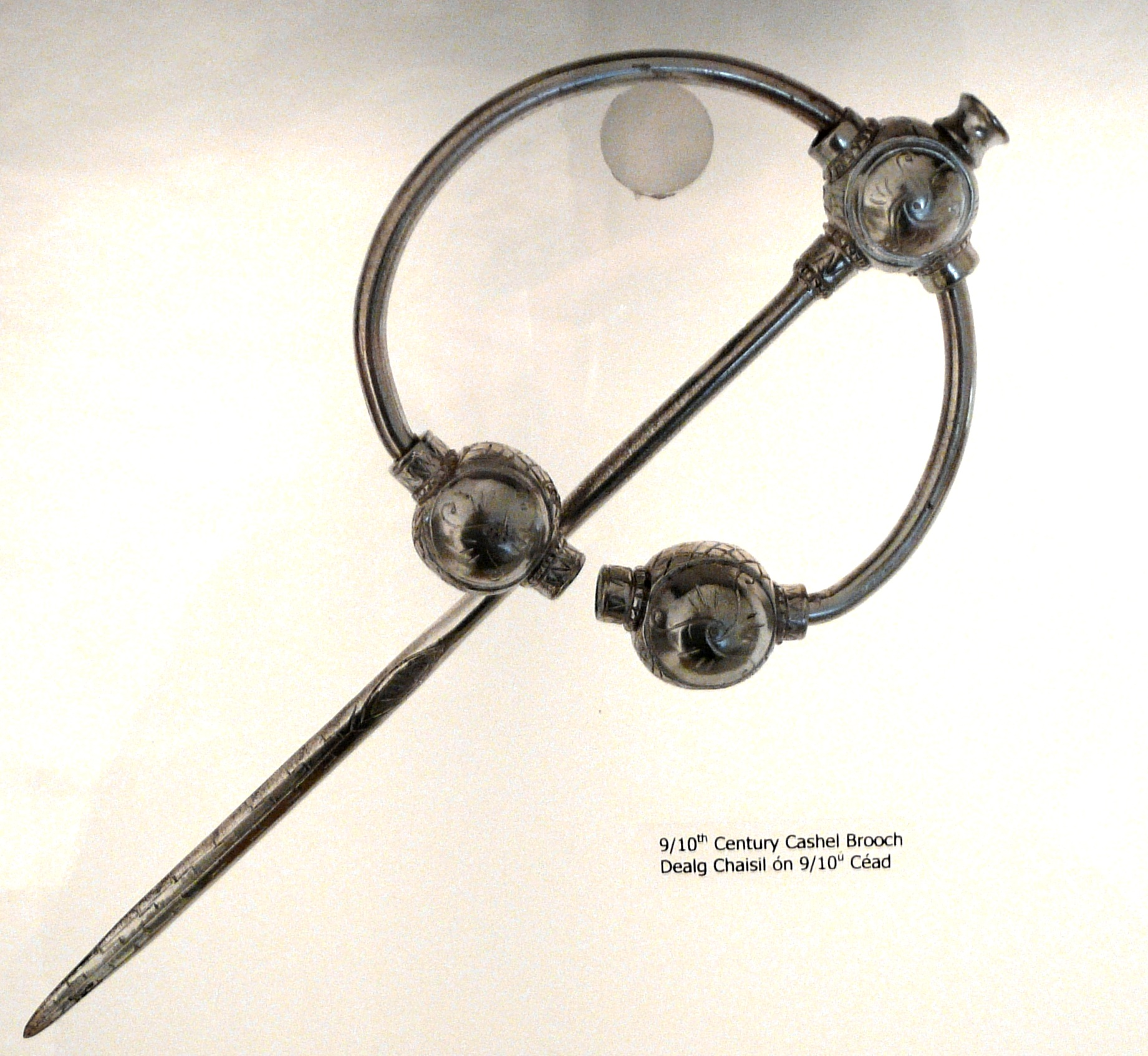 Cashel Brooch, from the 9th or 10th centuries. In the museum at the Rock of Cashel.